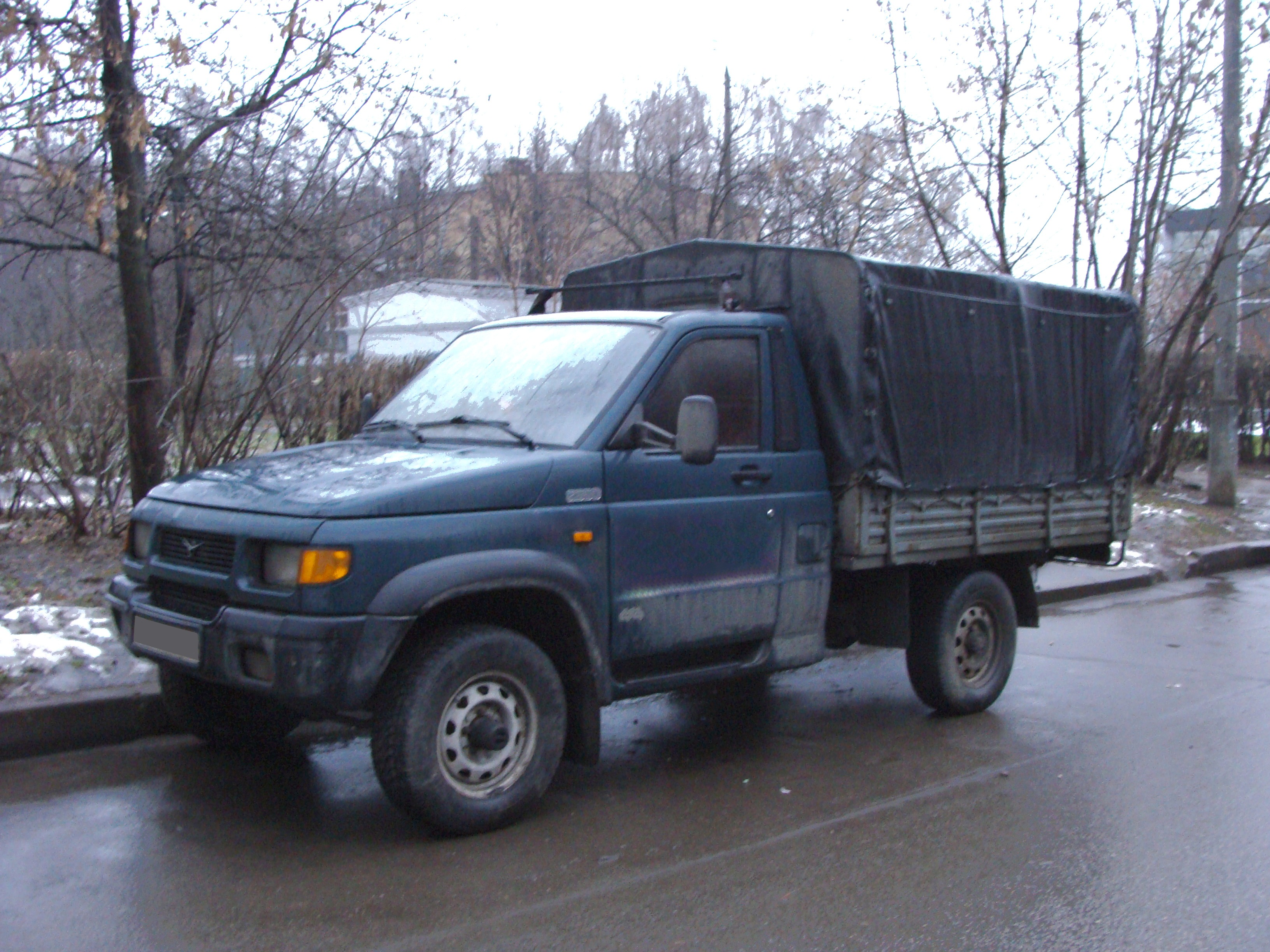 UAZ-2360